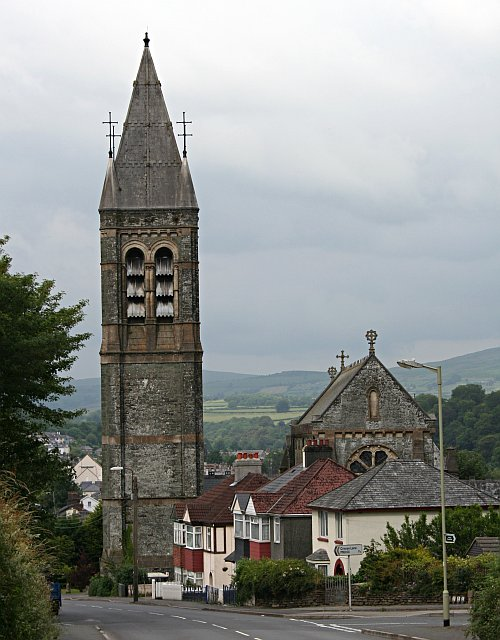 Roman Catholic Church of Our Lady and St Mary Magdalene, Callington Road, Tavistock, Devon. Built in 1867 as an Anglican parish church. Made redundant after the Second World War and sold to the Roman Catholic Church.